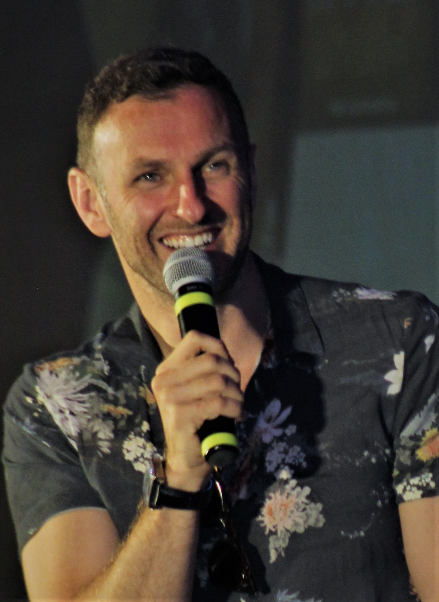 Steven Cree in 2018 at Creation Entertainment's Outlander Convention.